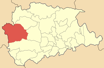 Aspropotamos comunity in Trikala perfecture, Greece